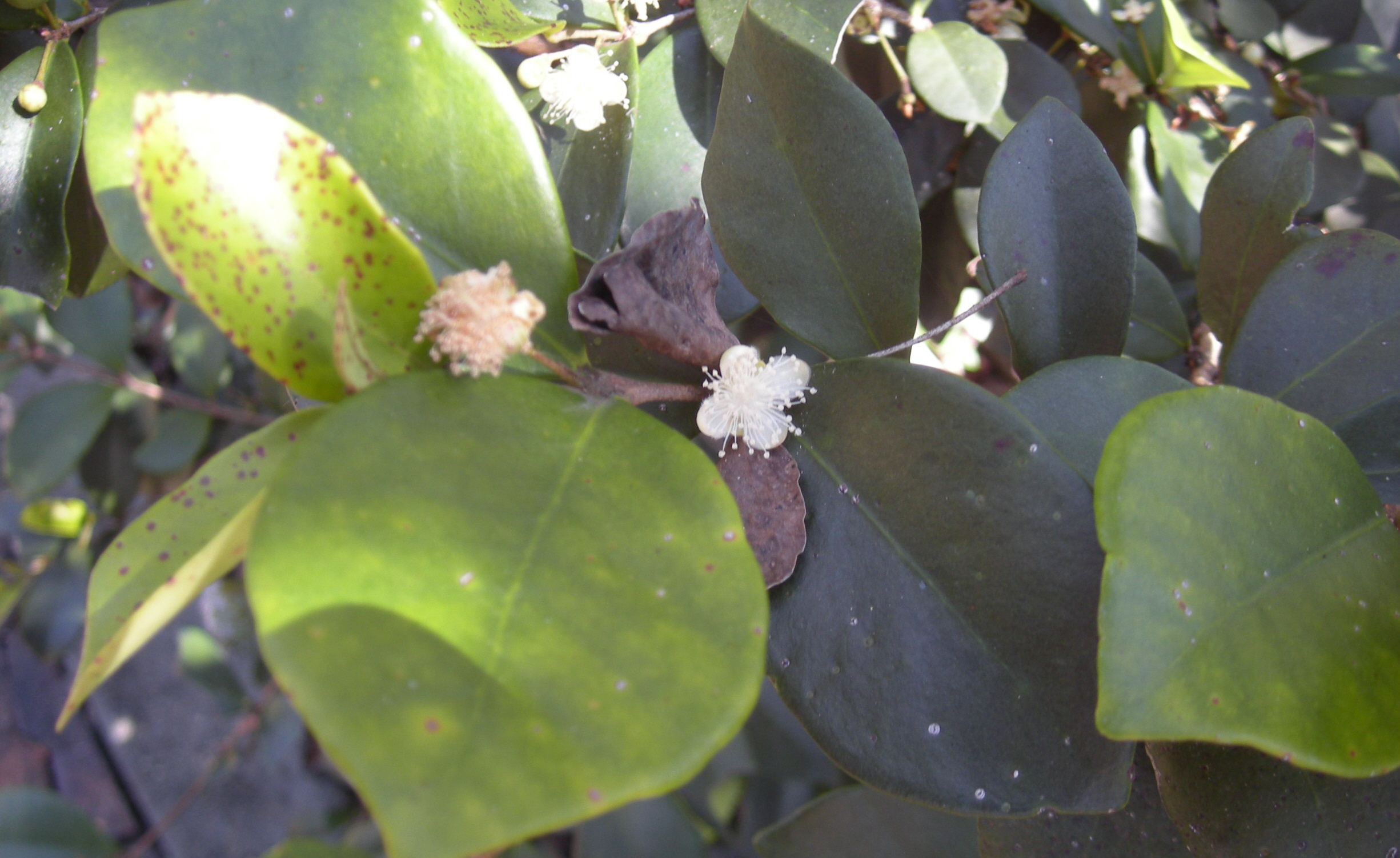 Eugenia reinwardtiana flower and foliage